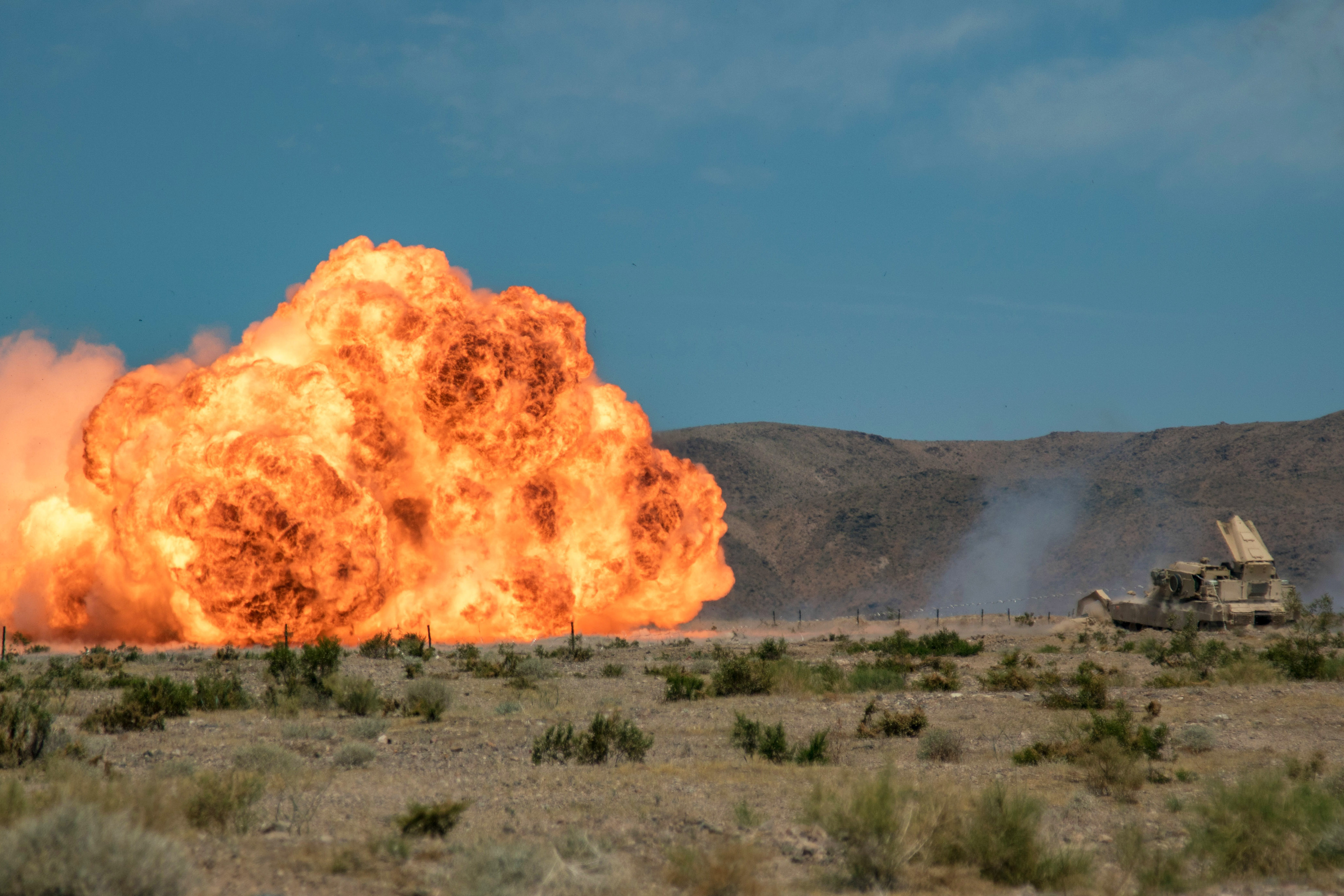 Soldiers from A Co, 116 Brigade Engineer Battalion, detonate an M58 Mine Clearing Line Charge (MICLIC) during a live-fire training exercise at the National Training Center (NTC) in Fort Irwin, Calif., June 12, 2019. NTC is a month-long rotation that provides more than 4,000 service members from 31 states, including units from 13 National Guard states and territories, with realistic training to enhance their combat, support and sustainment capabilities. (Photo by: Cpl. Alisha Grezlik, 115th Mobile Public Affairs Detachment)